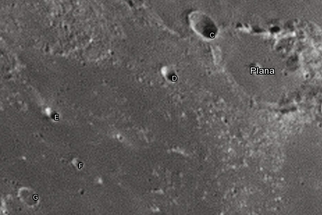 Plana lunar crater as seen from Earth with satellite craters labeled